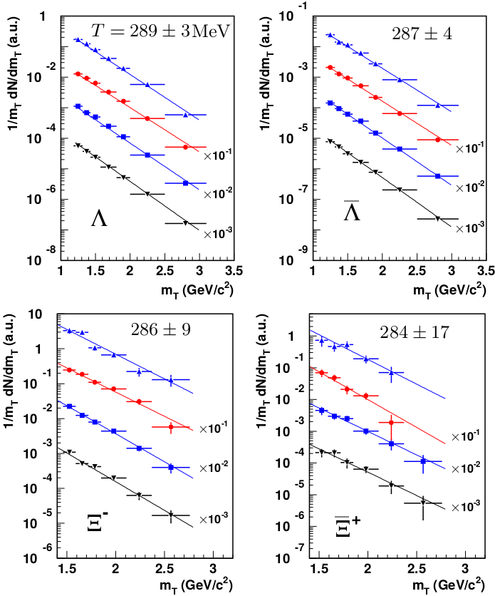 The final Pb–Pb results for hyperon spectra by WA97adapted from F. Antinori et al. [WA97 Collaboration], Transverse mass spectra of strange and multistrange particles in Pb Pb collisions at 158-A-GeV/c. (Eur. Phys. J. C14, 633 (2000))